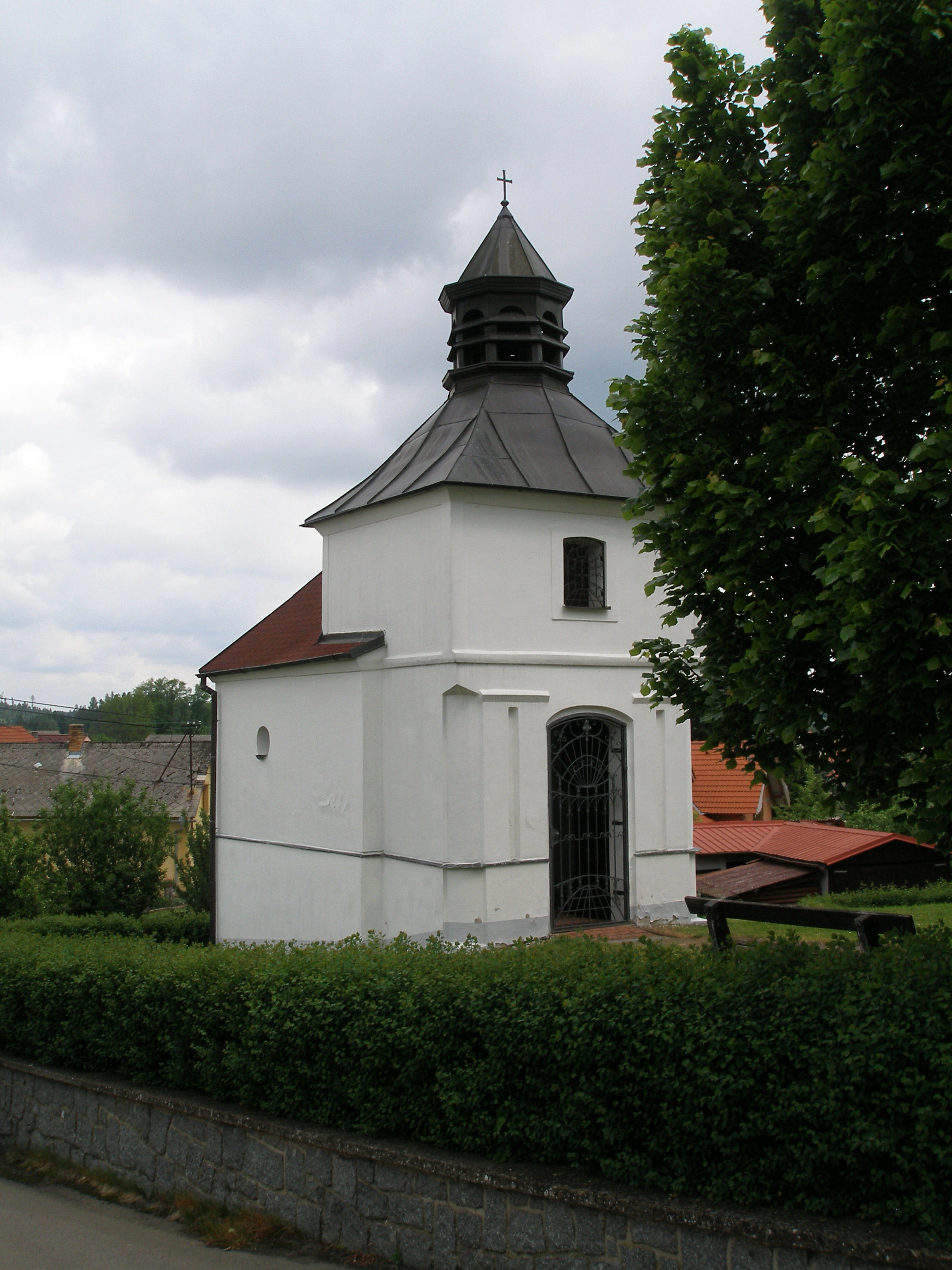 Drahňovice (the Czech Republic, Benešov District) - the chapel on the square